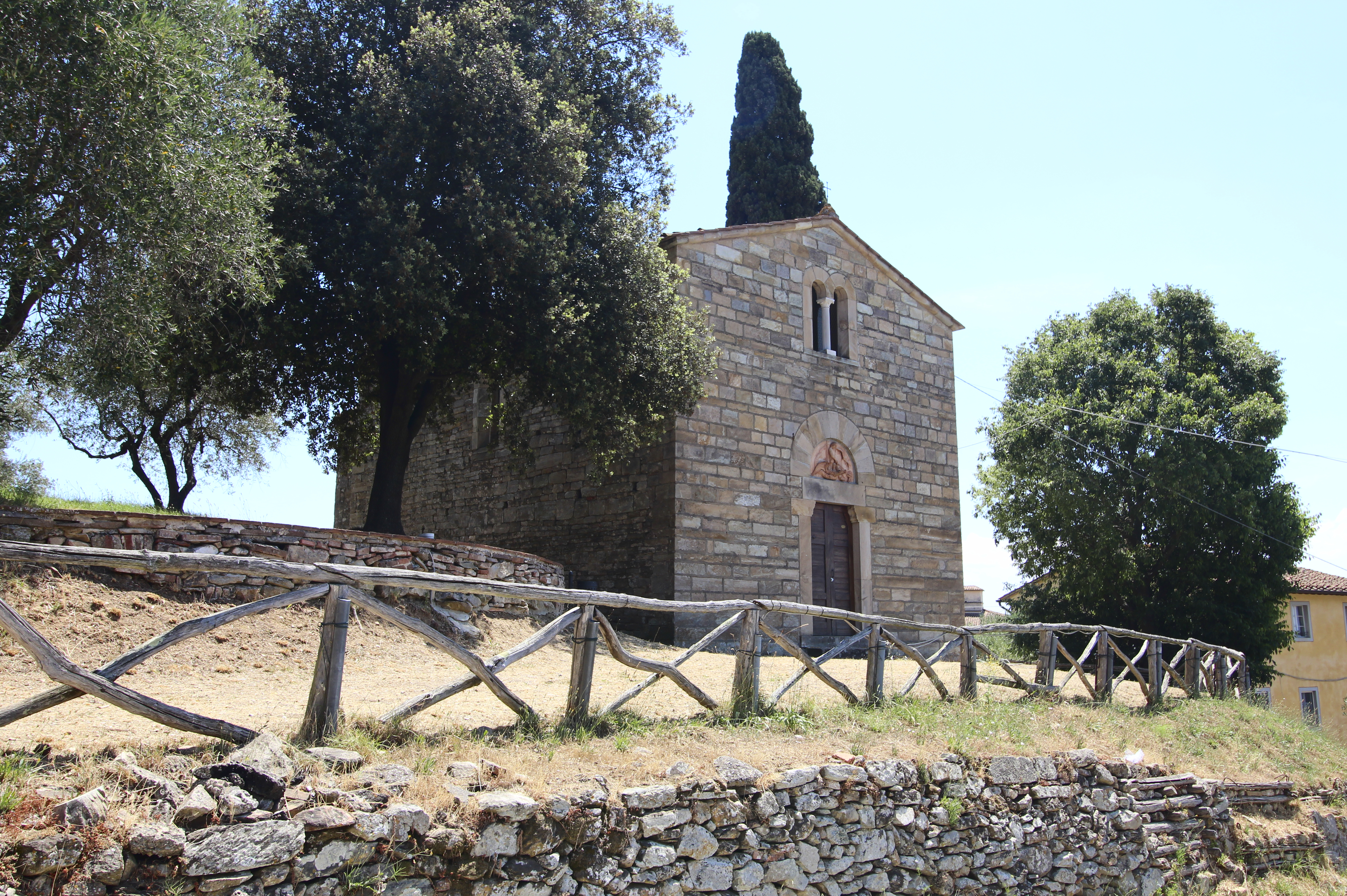 Church San Giorgio, Lugnano, hamlet of Vicopisano, Province of Pisa, Tuscany, Italy.